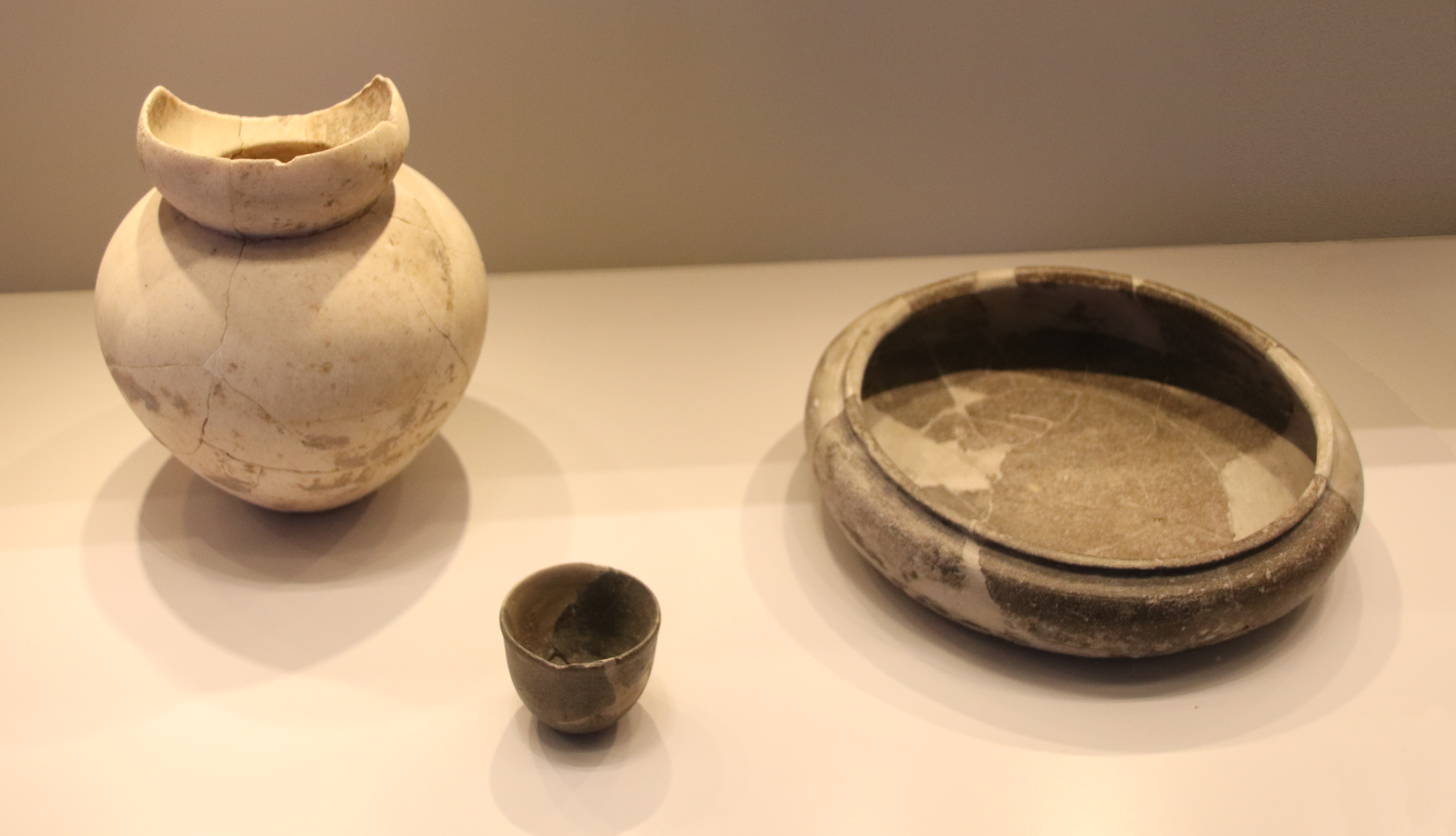 Alabaster & Obsidian Vessels, Tel Kabri, Wadi Rabah Culture, 5500 BC Israel Museum, Jerusalem, Israel. Complete indexed photo collection at .